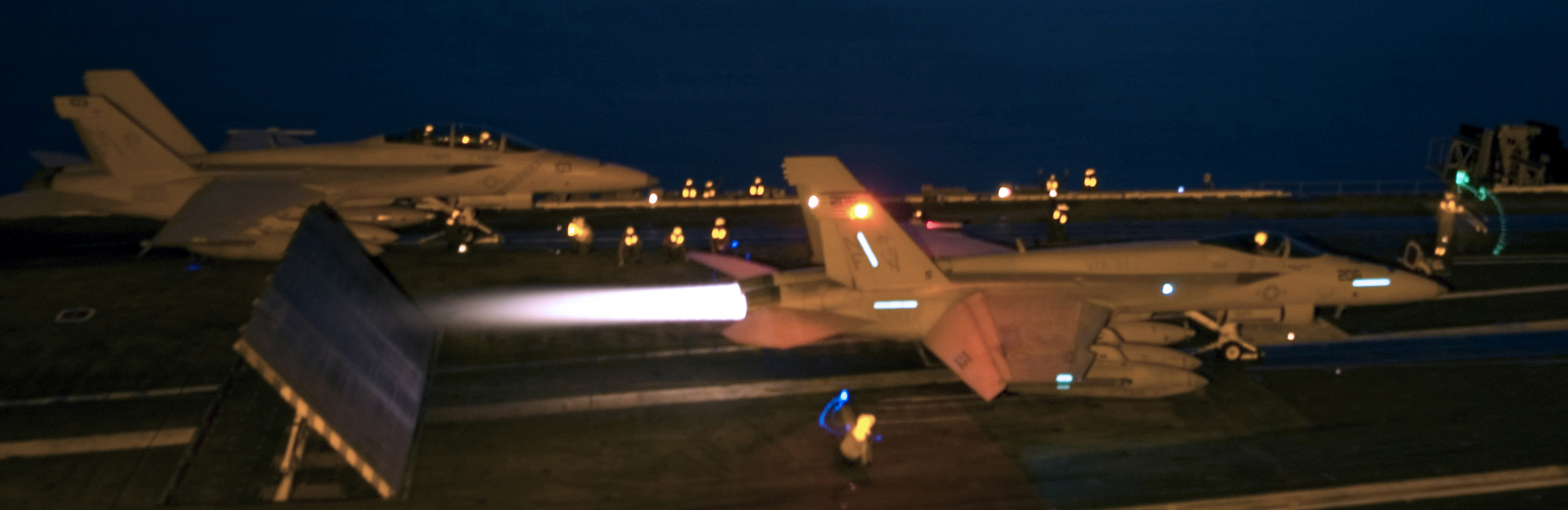 PACIFIC OCEAN (May 29, 2009) An F/A-18E Super Hornet assigned to the "Royal Maces" of Strike Fighter Squadron (VFA) 27 launches from the aircraft carrier USS George Washington (CVN 73) as an F/A-18F Super Hornet assigned to the "Diamondbacks" of Strike Fighter Squadron (VFA) 102 waits to launch on the opposite catapult. George Washington, the Navy's only permanently forward deployed aircraft carrier, is underway conducting a Combat Operations Efficiency evaluation in the western Pacific Ocean. (U.S. Navy photo by Mass Communication Specialist 3rd Class John J. Mike/Released)